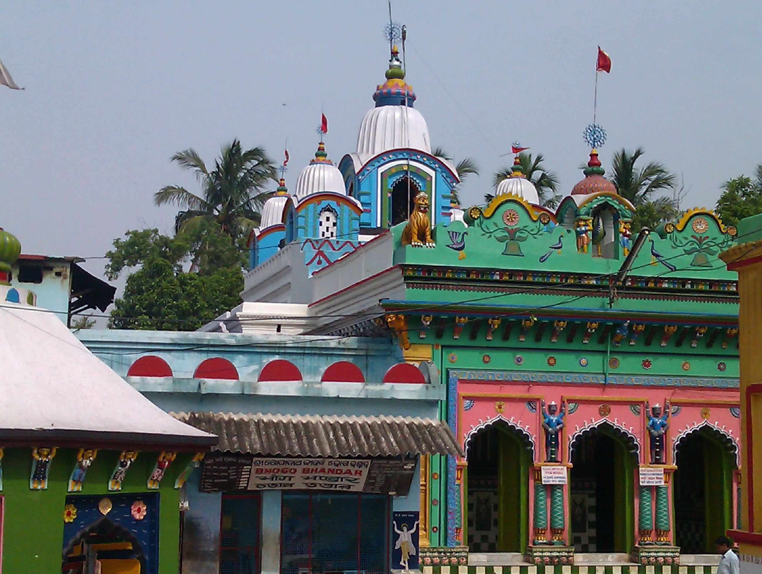 Kshirachora Gopinatha Temple ଓଡ଼ିଆ: କ୍ଷୀରଚୋରା ଗୋପୀନାଥ ମନ୍ଦିର